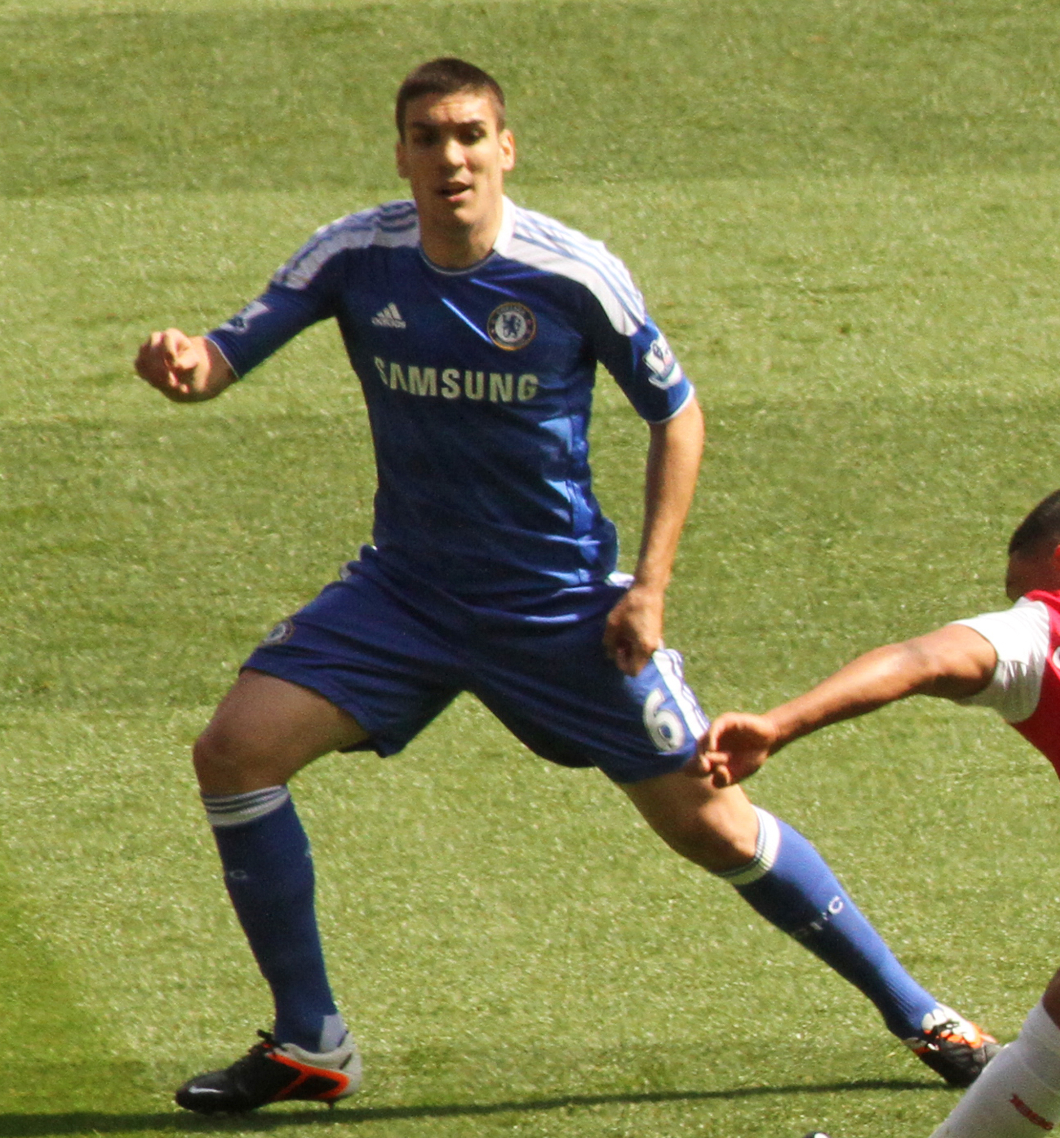 Oriol Romeu playing for Chelsea FC.